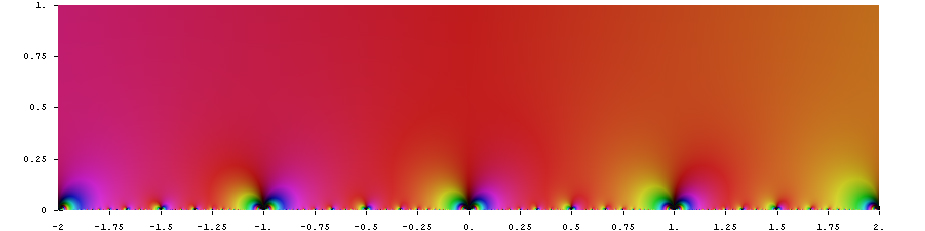 function DedekindEta[z] in the complex plane